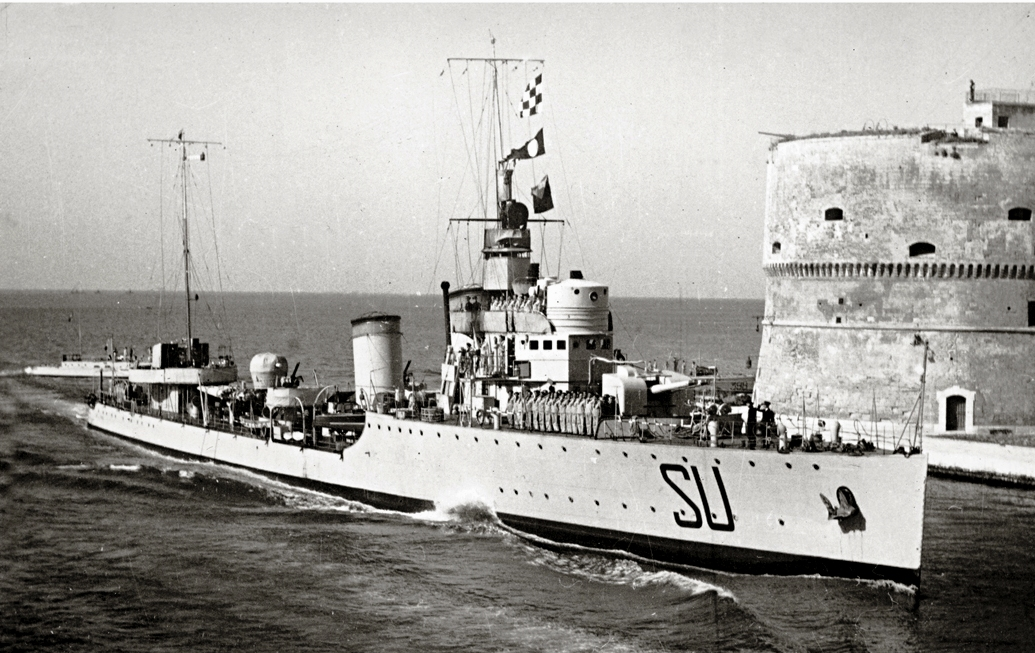 Italian Destroyer Nazario Sauro at Taranto